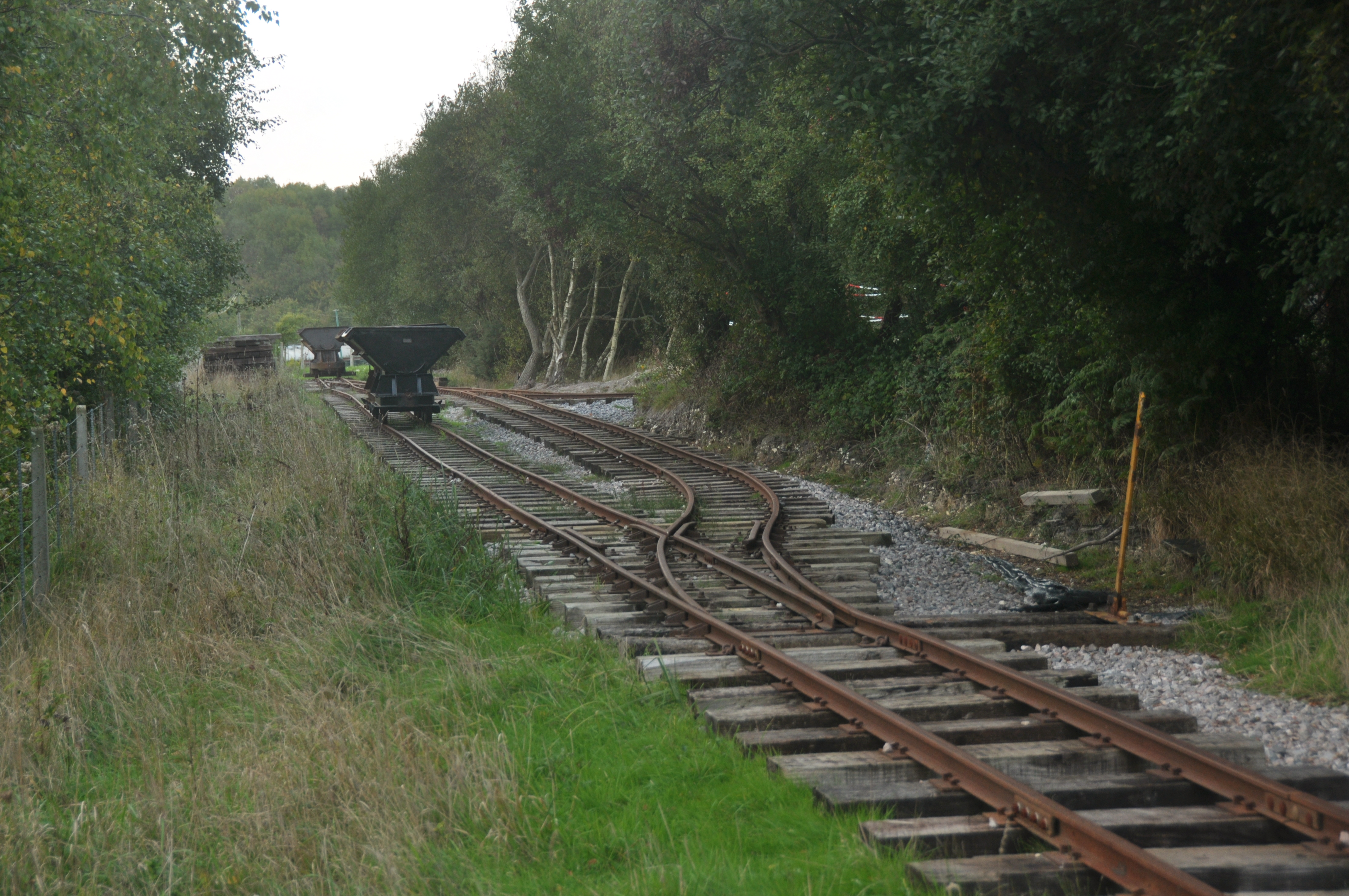 Purbeck Mineral and Mining Museum